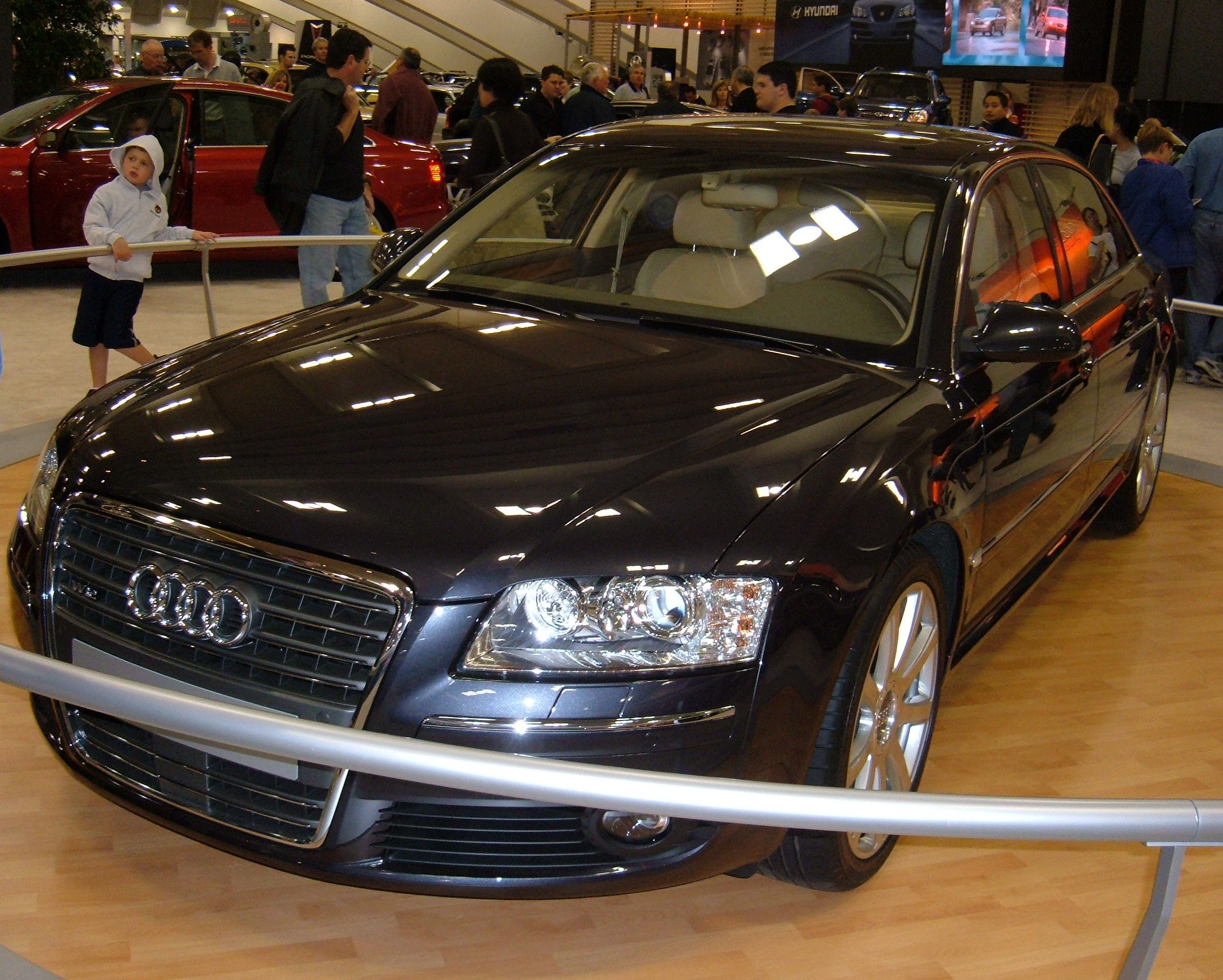 A 2005 Audi A8 L W12 European model at the 2004 San Francisco International Auto Show.